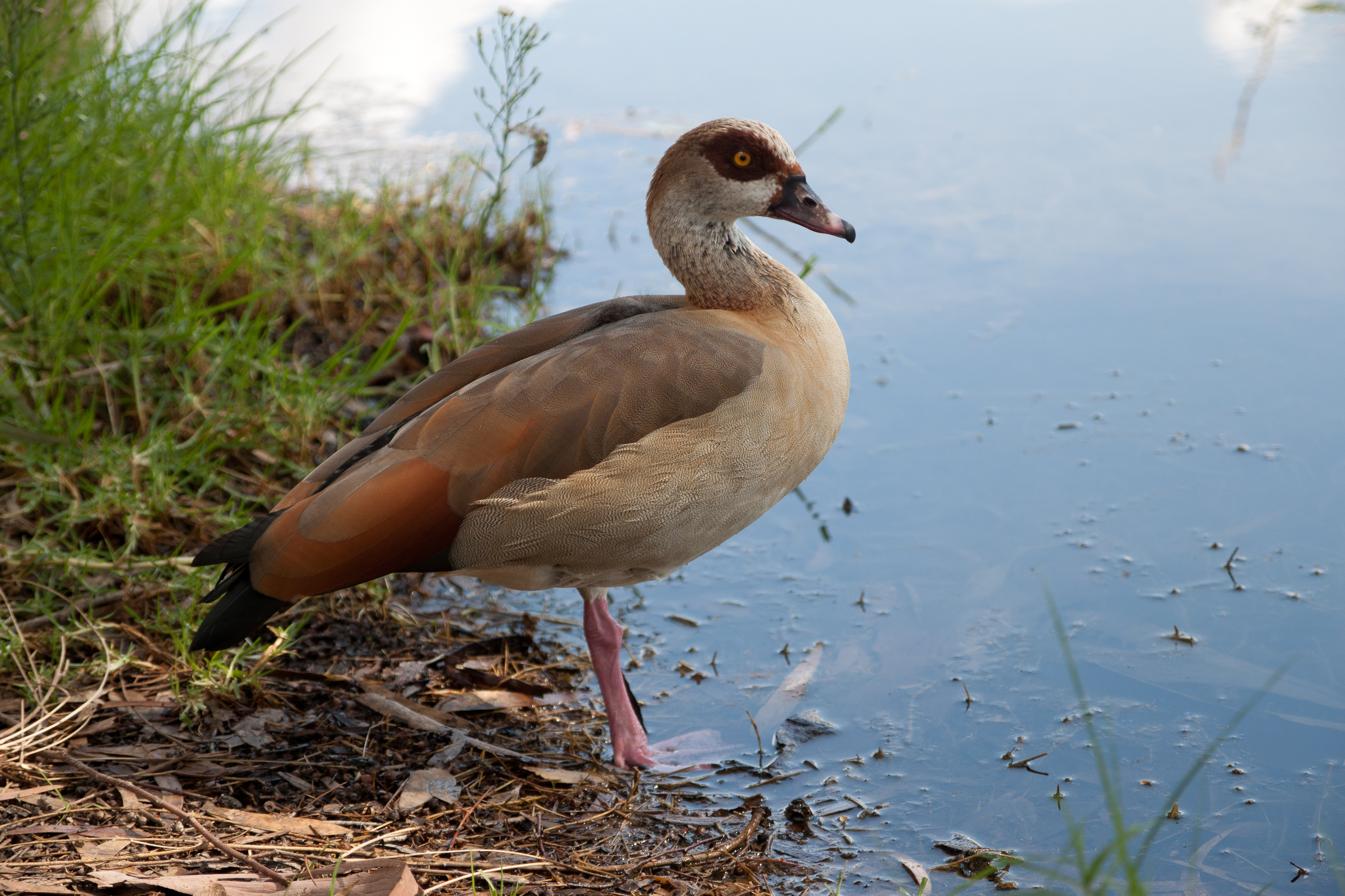 Egyptian Goose at Yarkon National Park, Israel